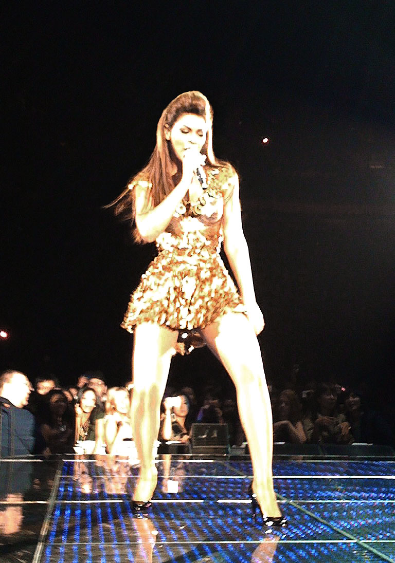 beyonce in vancouver cropped